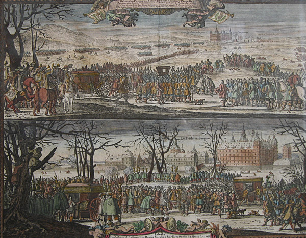 The arrival at Frederiksborg Castle for the peace banquet following the signing of the Treaty of Roskilde in Roskilde, 26 February 1658.